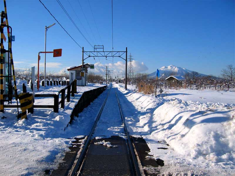 Matsukitai Halt in Hirosaki-City, Aomori-Prefecture, Japan.